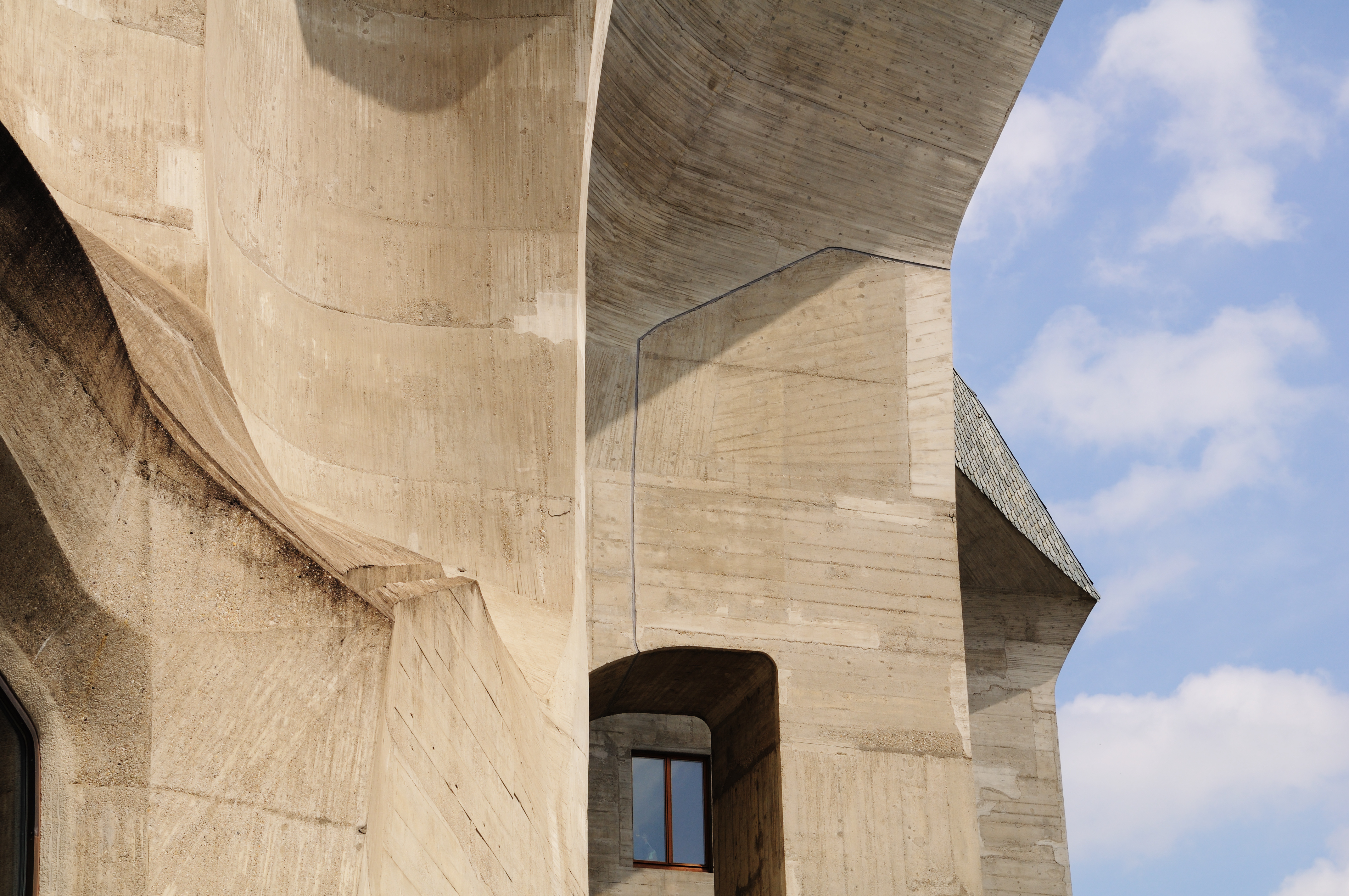 Detail of Goetheanum showing the expansion gap of the column that that has no carrying function